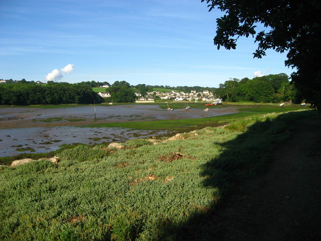 Llangwm from Black Tar